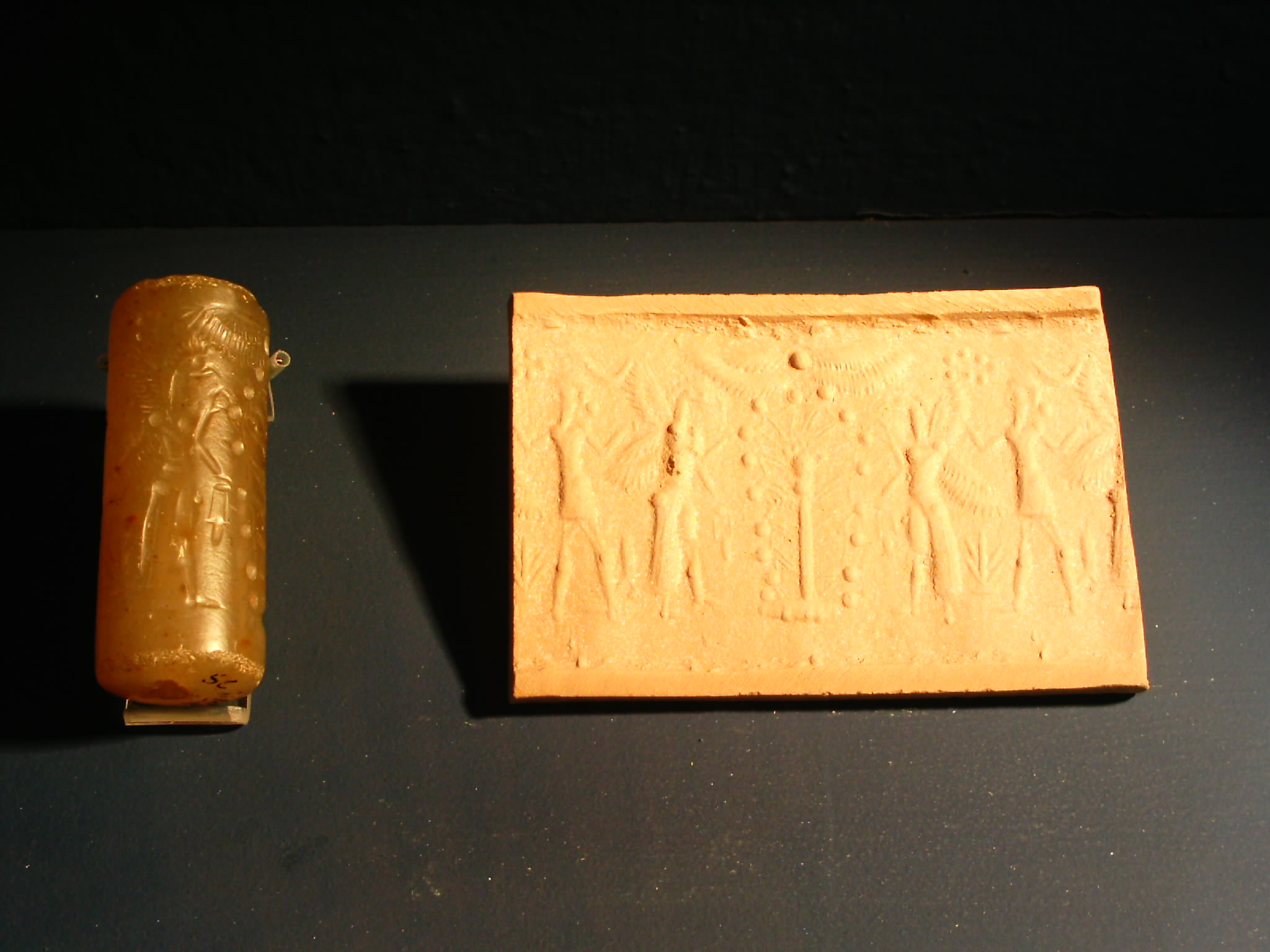 Cylinder seal and impression with Seven-dots glyph-(Pleiades?), and Tree of life (disambiguation).